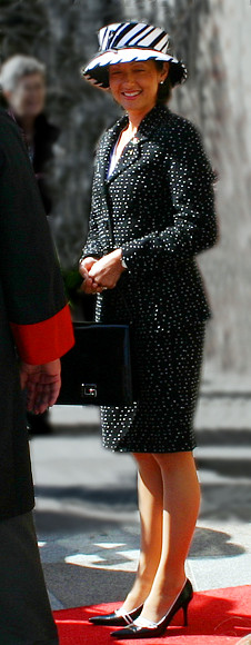 Photo of the danish princess Alexandra, from when she visited Aalborg, Denmark.